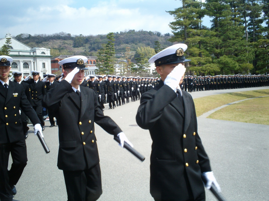 The graduation ceremony of the JMSDF First Service School's 53rd class students at Etajima. They were the last petty officer candidates in its 53-year history.